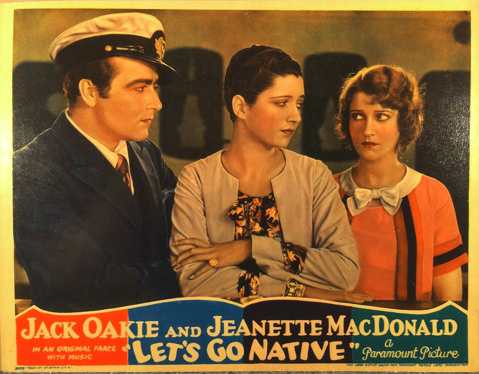 Lobby card for the 1930 film Let's Go Native. There are no copyright marks on the card. At bottom left is 3054 Country of origin USA. At bottom left is This lobby display leased from Paramount Famous Lasky Corporation.